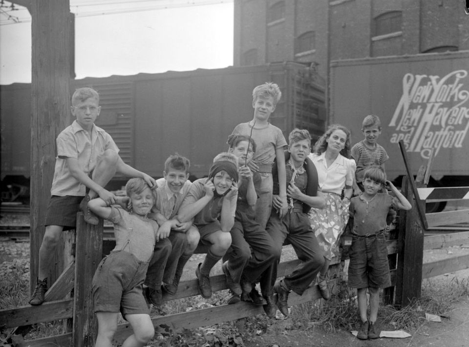 We see the woman of letters Gabrielle Roy surrounded by nine children (eight boys, one girl; Yvon Laferrière is the first on the left) of the St. Henri neighborhood in Montreal. They sit on a fence at the corner of St. Augustine and Saint-Ambroise near the railroad tracks in front of a car in New York, New Haven and Hartford Railroad.